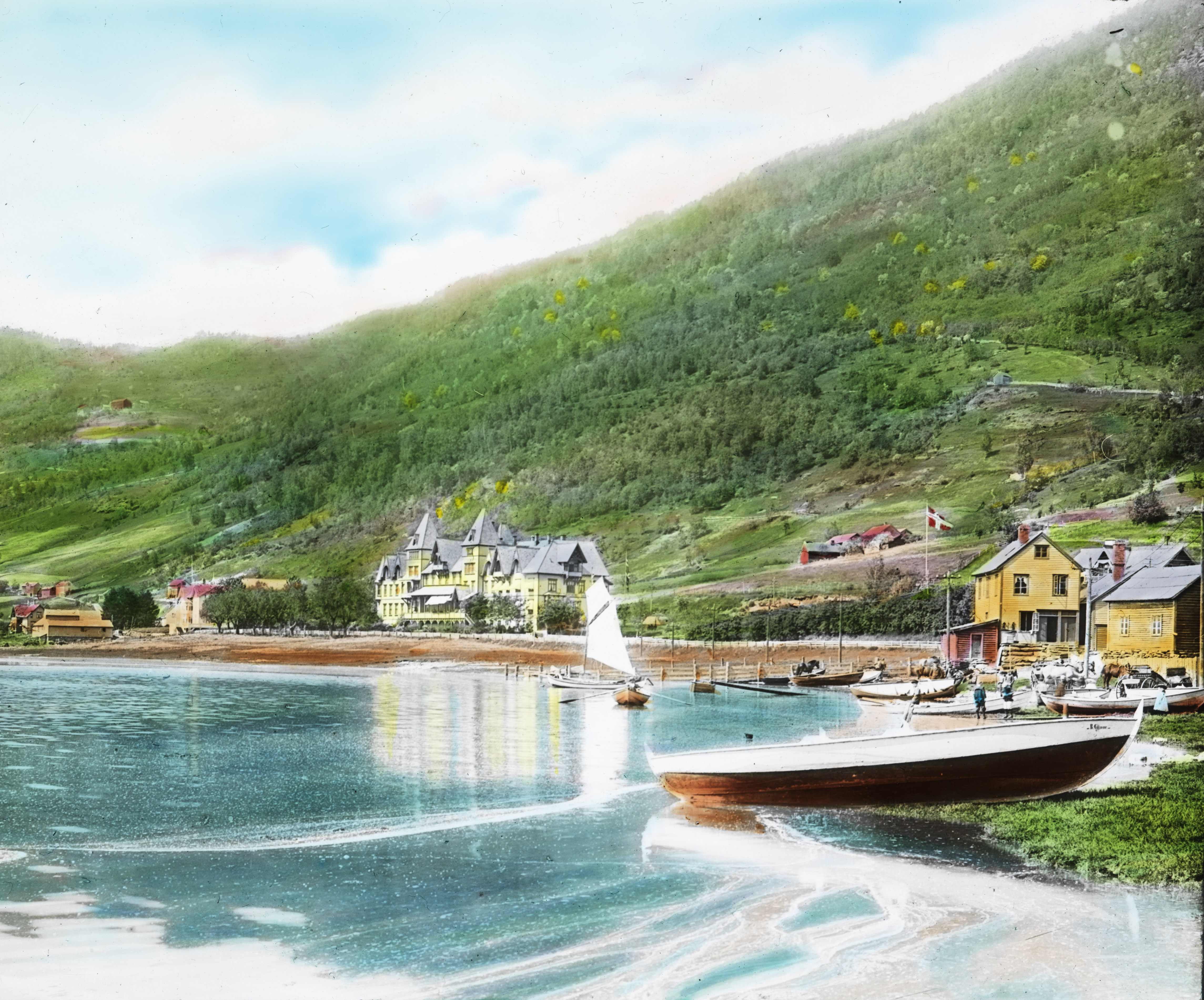 SFFf-1992078.0008 Voss. The building in the centre of the image is Fleischer's Hotel. The hotel was built in 1889 in the then popular Swiss style. Fleischer's Hotel was popular with well-to-do tourists around the turn of the 19th century.